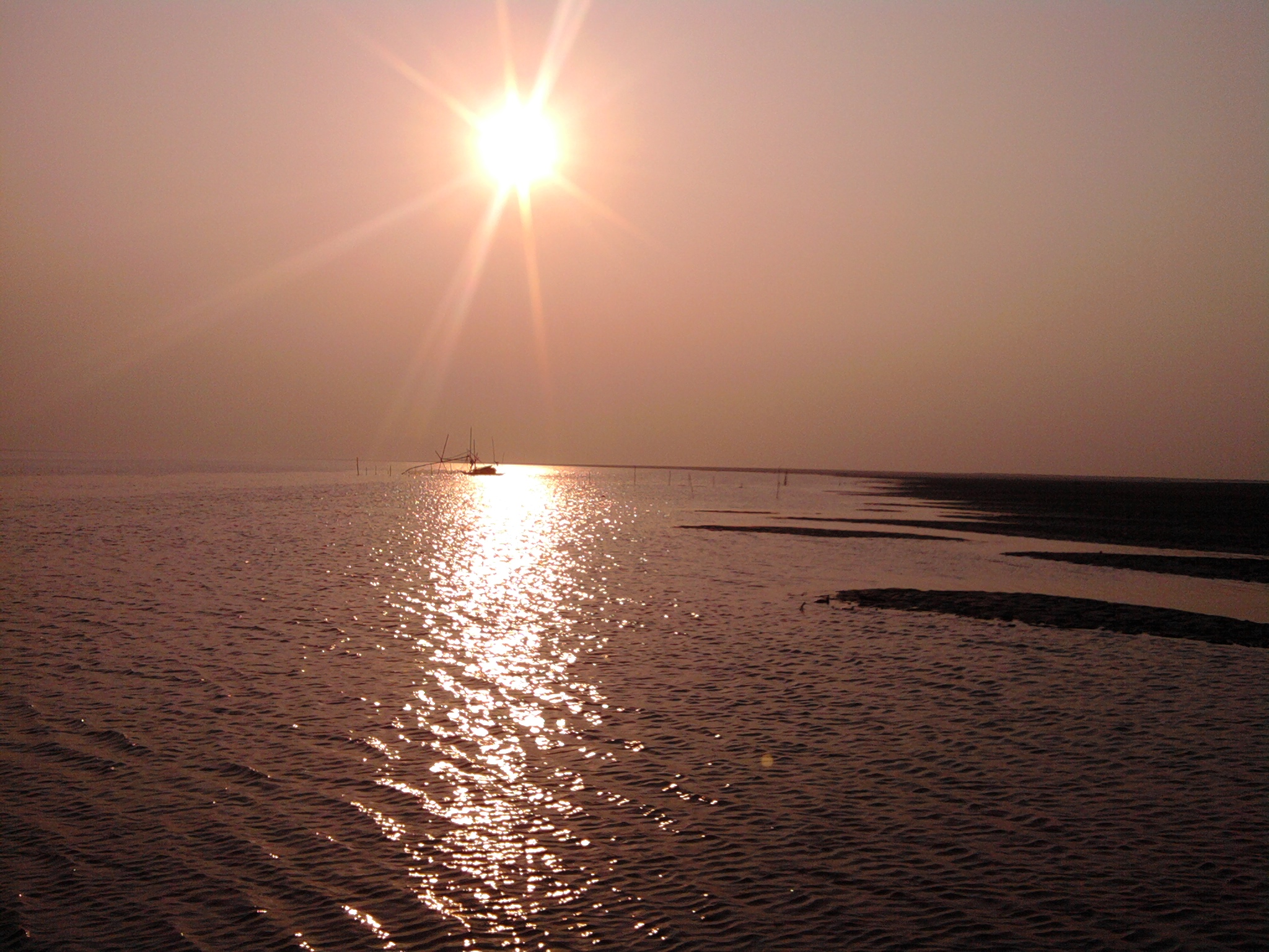 From the Natun Gaon village,one can see a majestic view of sunset.Biswanath Ghat has a lot of potentialities to attract tourism.Photographed by Raktim Sarmah.